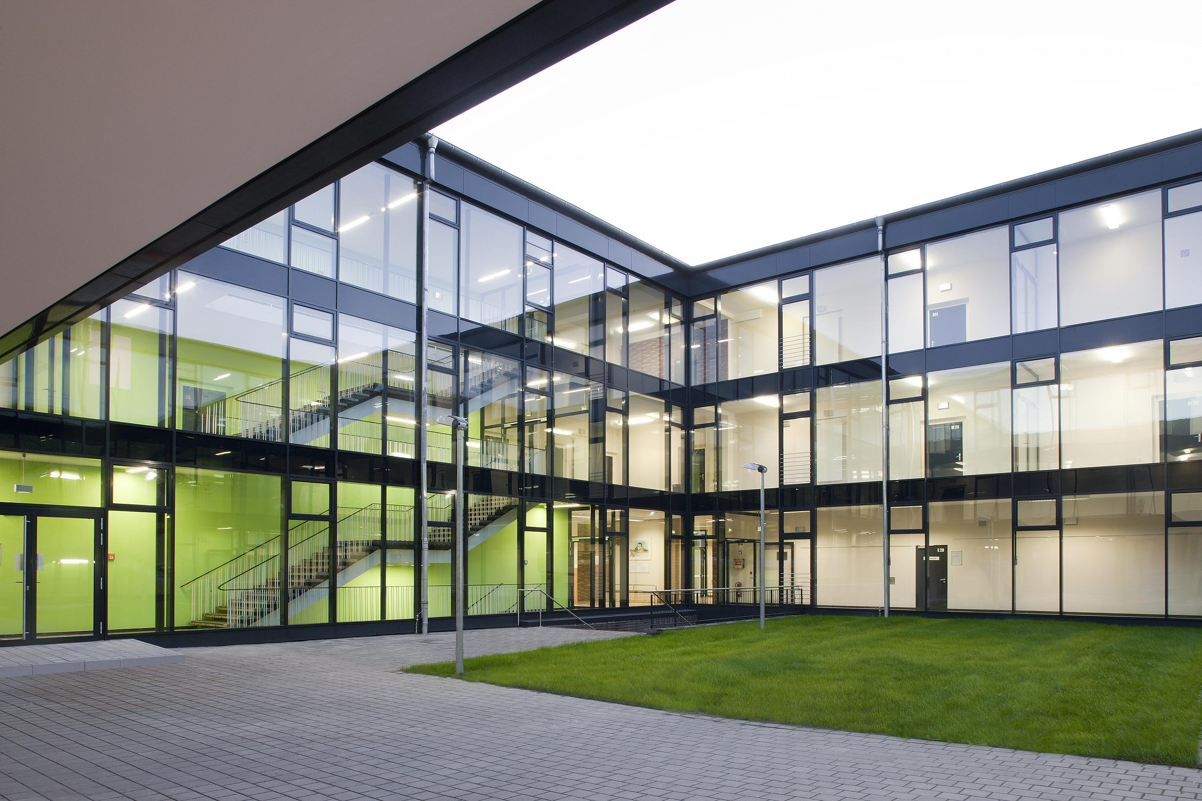 Klaus-Steilmann-Berufskolleg (2011)